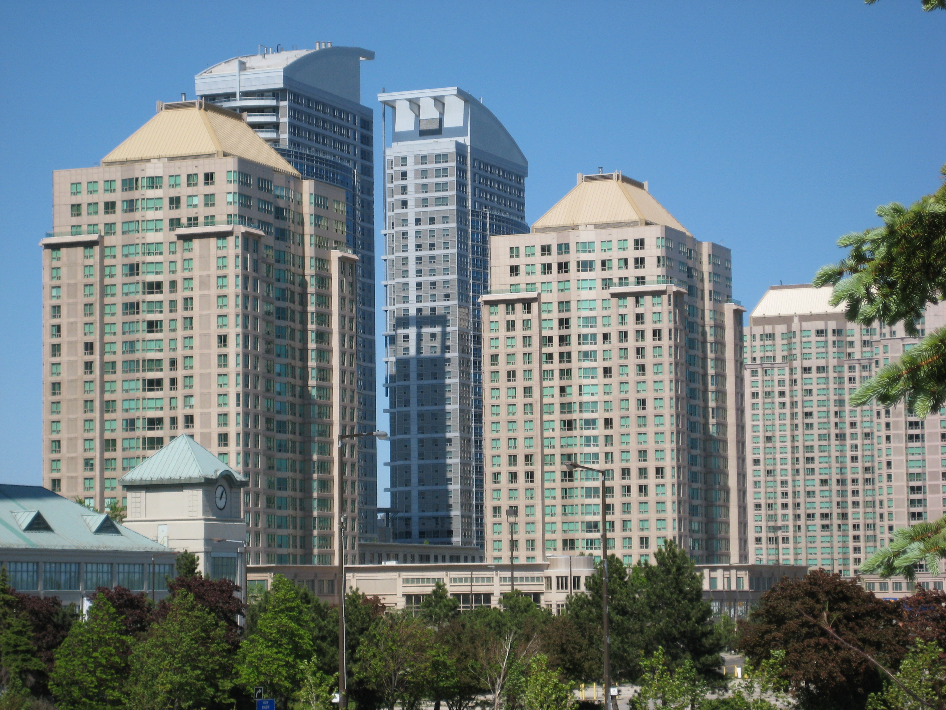 Buildings in Scarborough City Centre